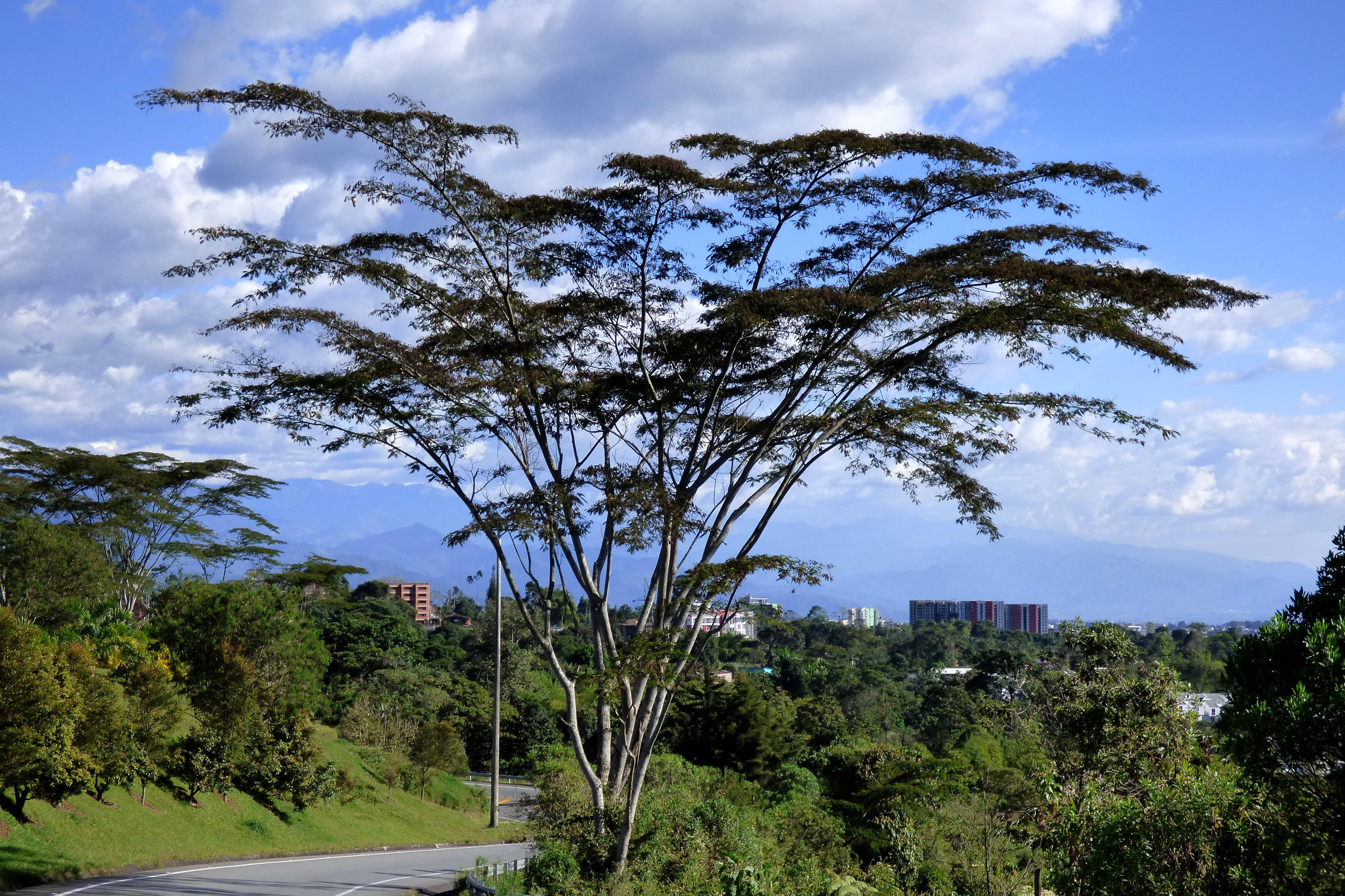 Albizia carbonaria